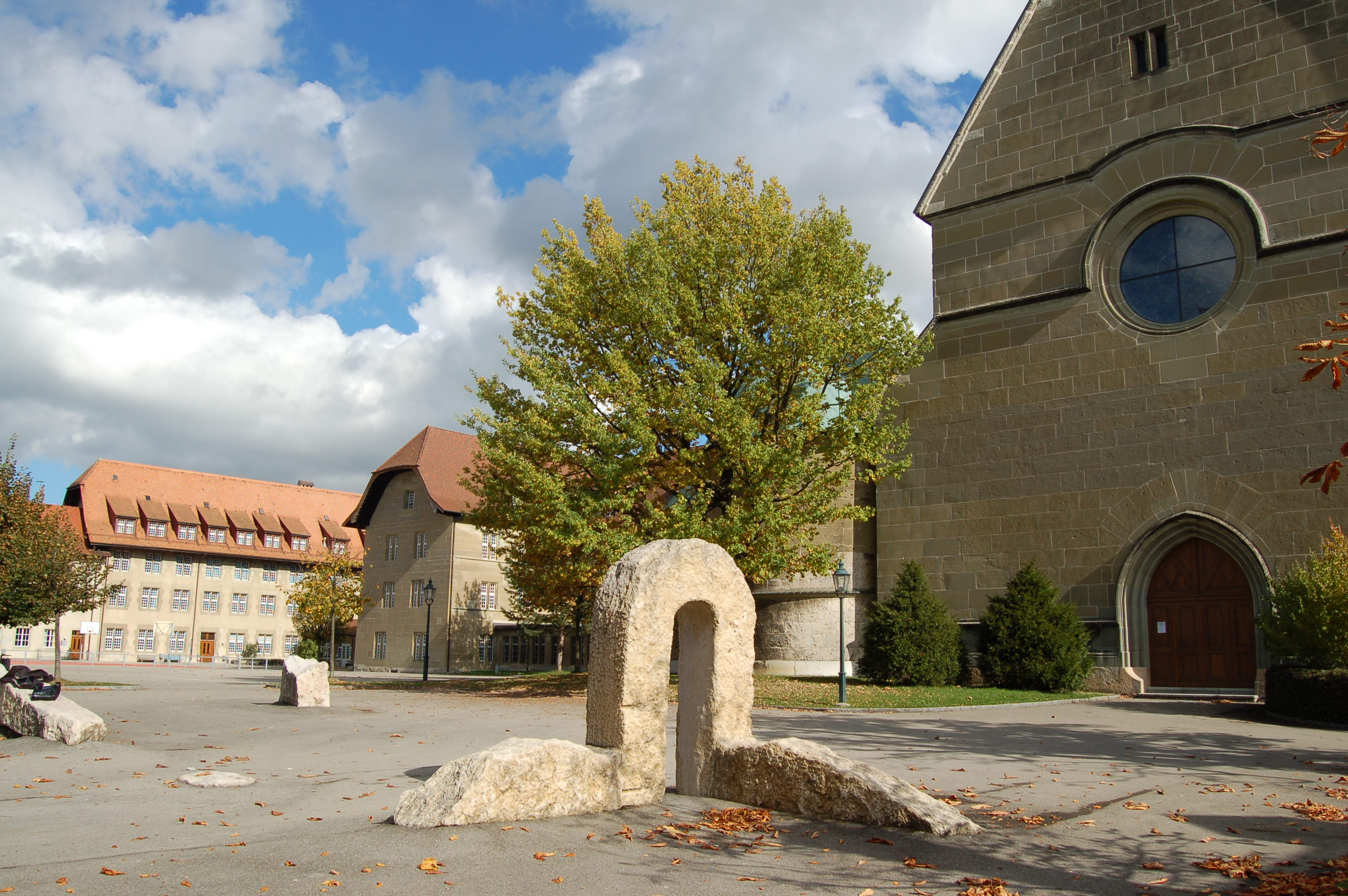 Fribourg, Switzerland